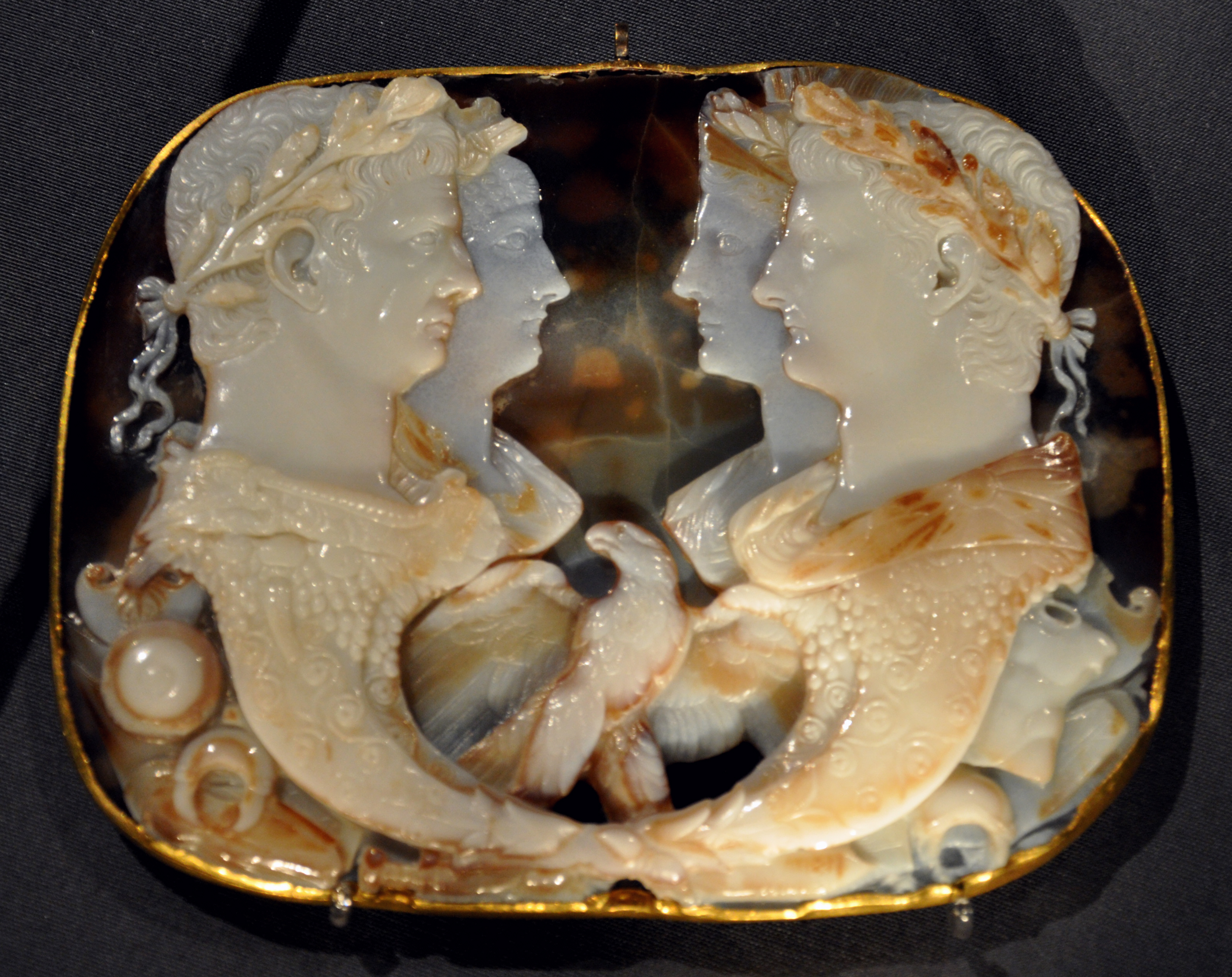 The Gemma Claudia, Roman, 49 C.E.(?). Inv.No. IX A 63; Collection of Greek and Roman Antiquities in the Kunsthistorisches Museum, Vienna.